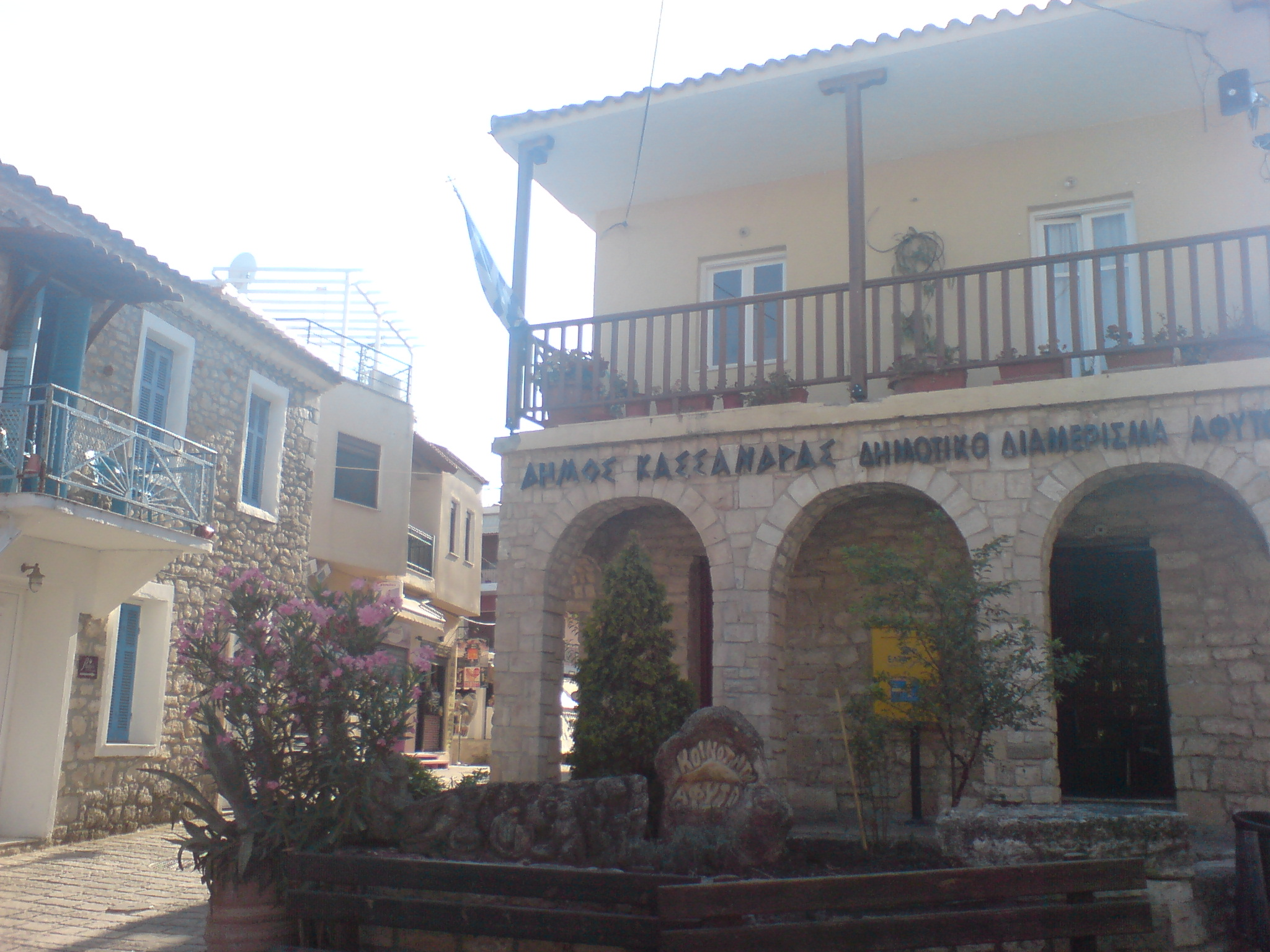 Afytos, Chalkidiki